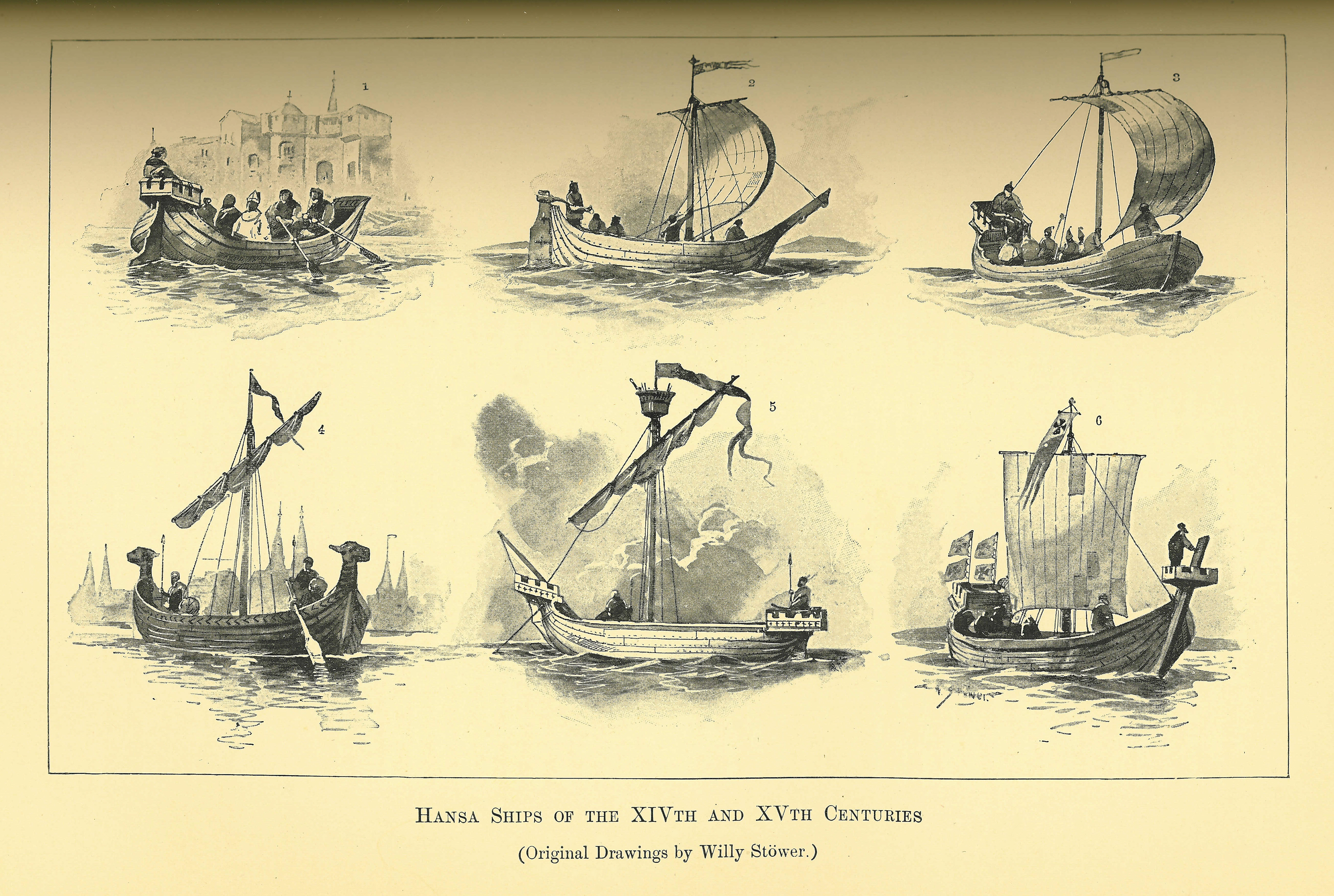 Hansa ships of the XIVth and XVth centuries. From the reverse of the plate: DESCRIPTION OF THE ILLUSTRATIONS OF HANSA SHIPS 1 and 3, Cologne ships of the year 1400. 2, Wismar ship 4, Lübeck ship. 5. Danzig ship. 6, Elbing ship. (1 and 3, after a Martyrdom of St. Ursula, painted about 1409, and now in the Wallraff-Richartz Museum at Cologne ; 2, 4 and 6, after impressions from seals in the Germanic National-Museum at Nuremberg; 2, after a seal bearing the inscription, Sigillum Wissemariensis civitatis ; 4, after a seal inscribed, Sigillum brugensium de Lubeke ; 5, after one inscribed, Sigillum burgensium in Dantzike ; and 6, after a seal bearing the inscription, Sigillum civitatis Elbingensis, Drawn by Willy Stöwer.)